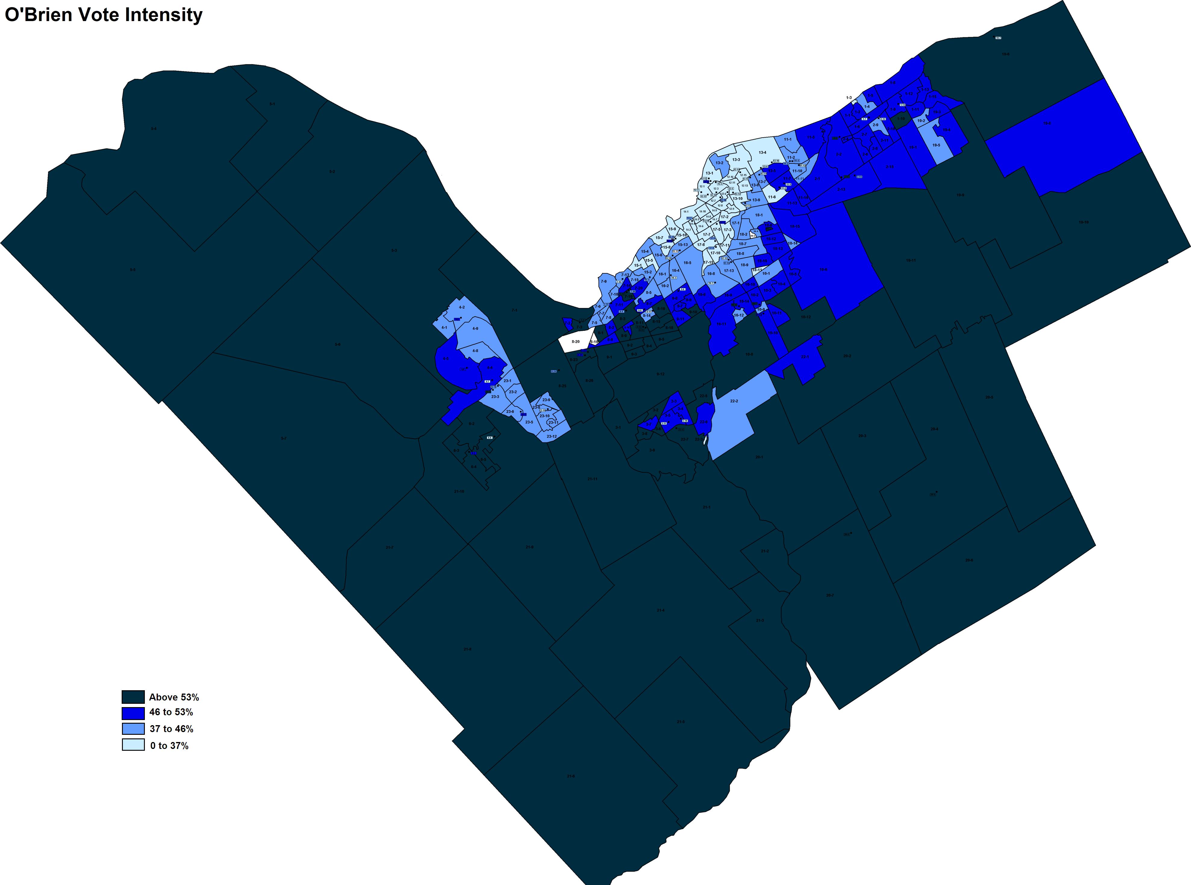 Larry O'Brien's 2006 vote distribution